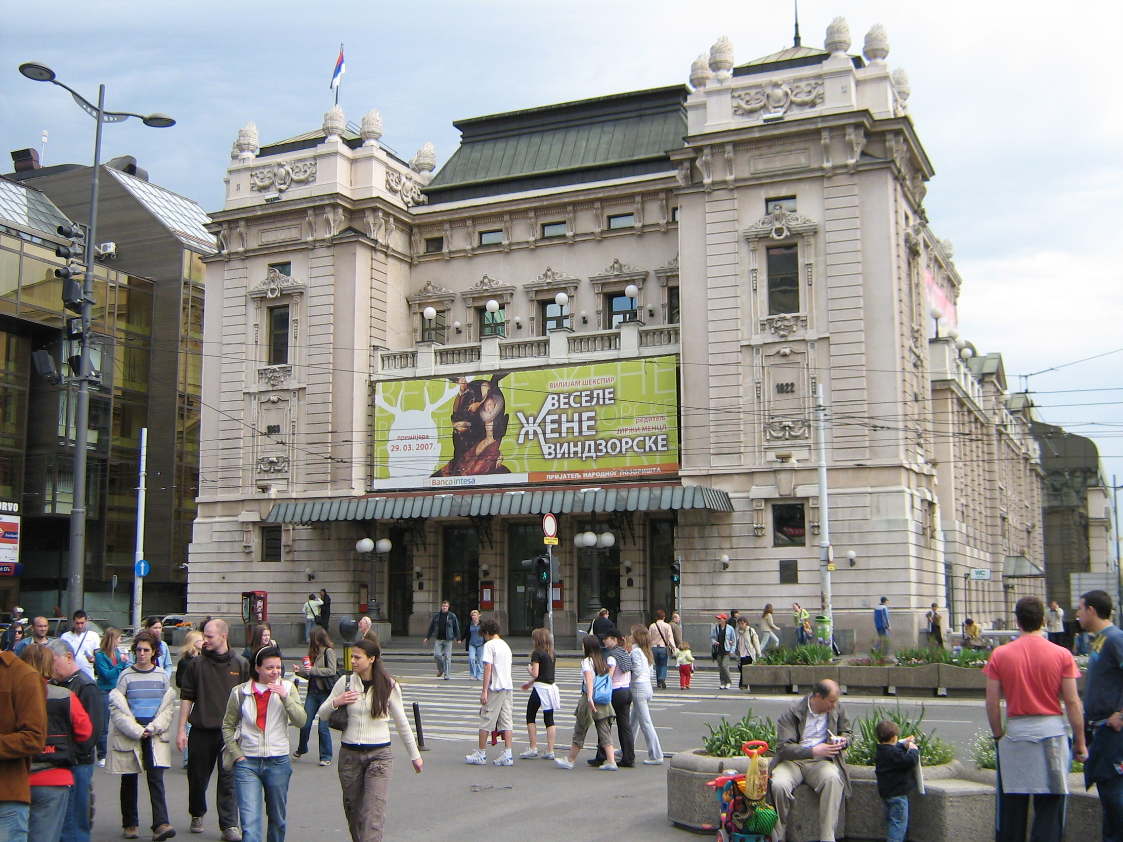 National Theater in Belgrade.